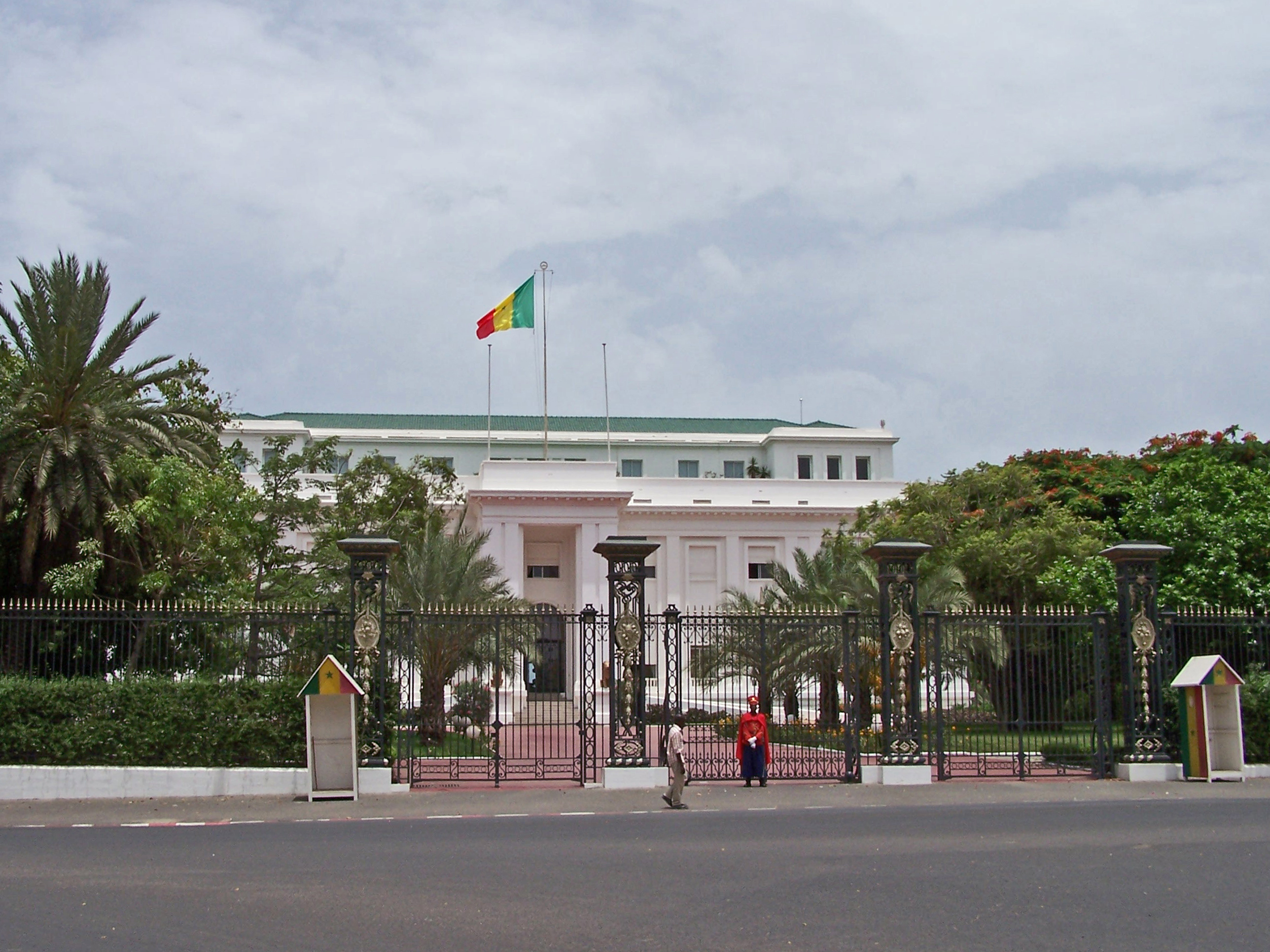 The Senegalese White House, resident of the president. Apparently there are usually three flags, but only if the president is in Senegal. Since he is currently traveling in France, the other two flags aren't flying.